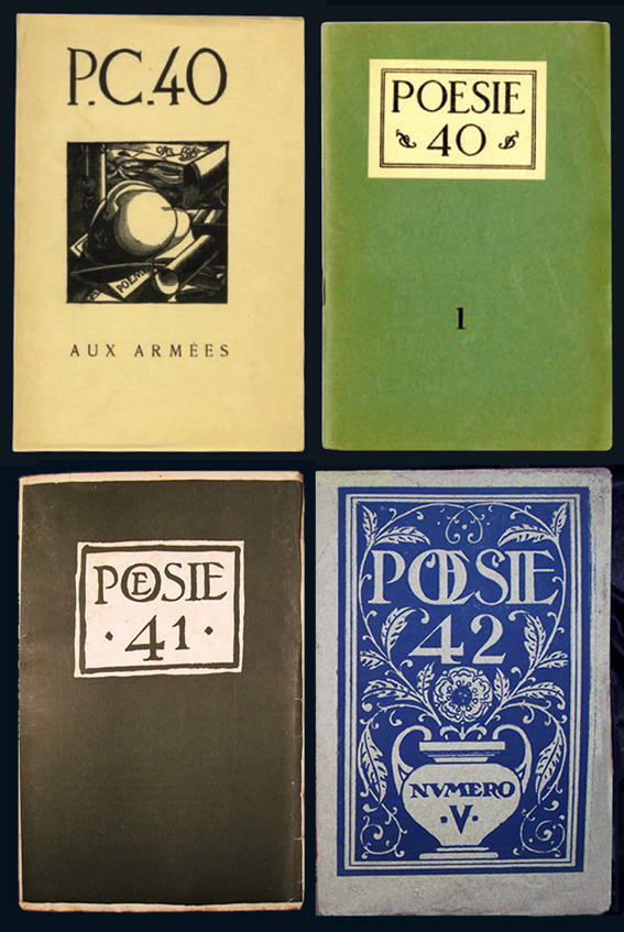 covers of poetry reviews founded by French poet Pierre Seghers during WW2